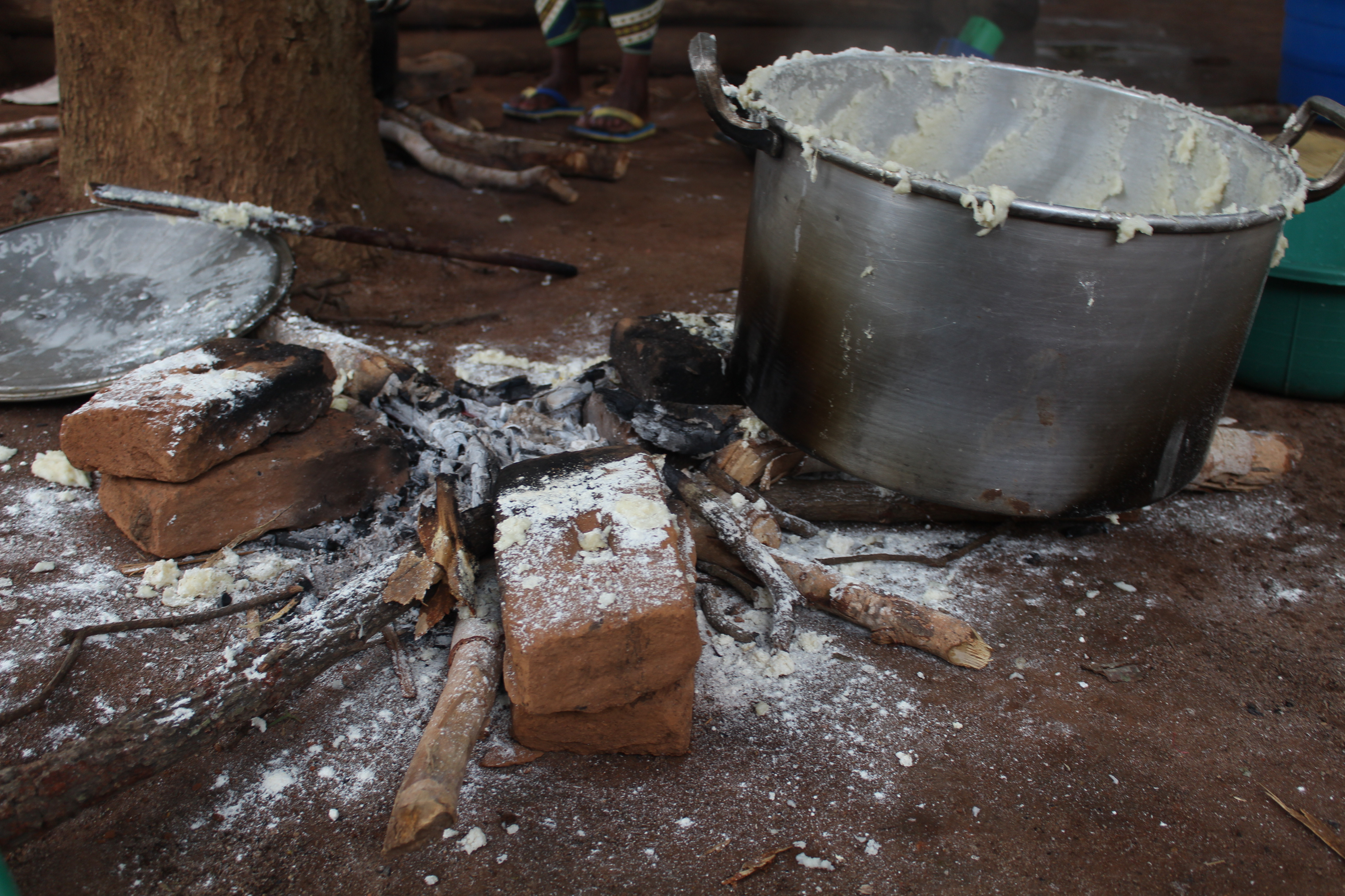 The three stone stove is ubiquitous in rural Mozambique. Here it has been used for cooking nshima. This is an image of food from Mozambique